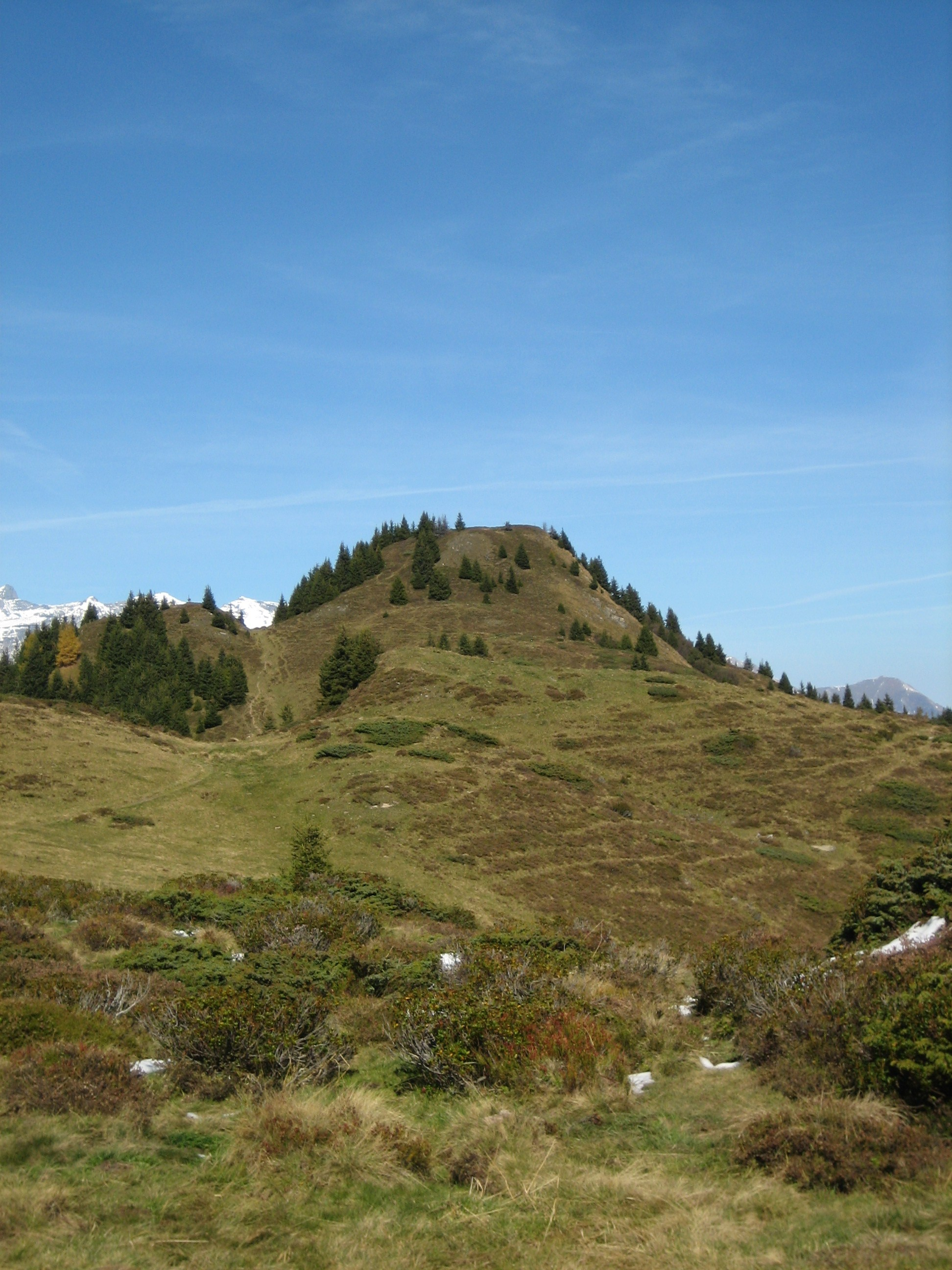 Crest dil Cut from south, Präz, Cazis, Grison, Switzerland Rumantsch: Crest dil Cut digl sid, Präz, Cazas, Grischun, Svizra